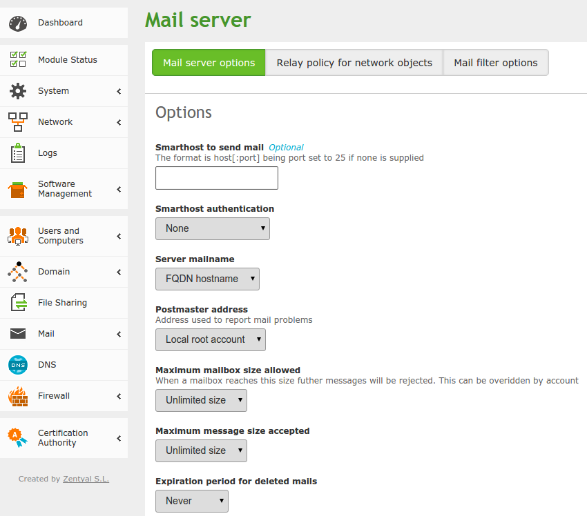 Screenshot of the Zentyal Dashboard, Mail section